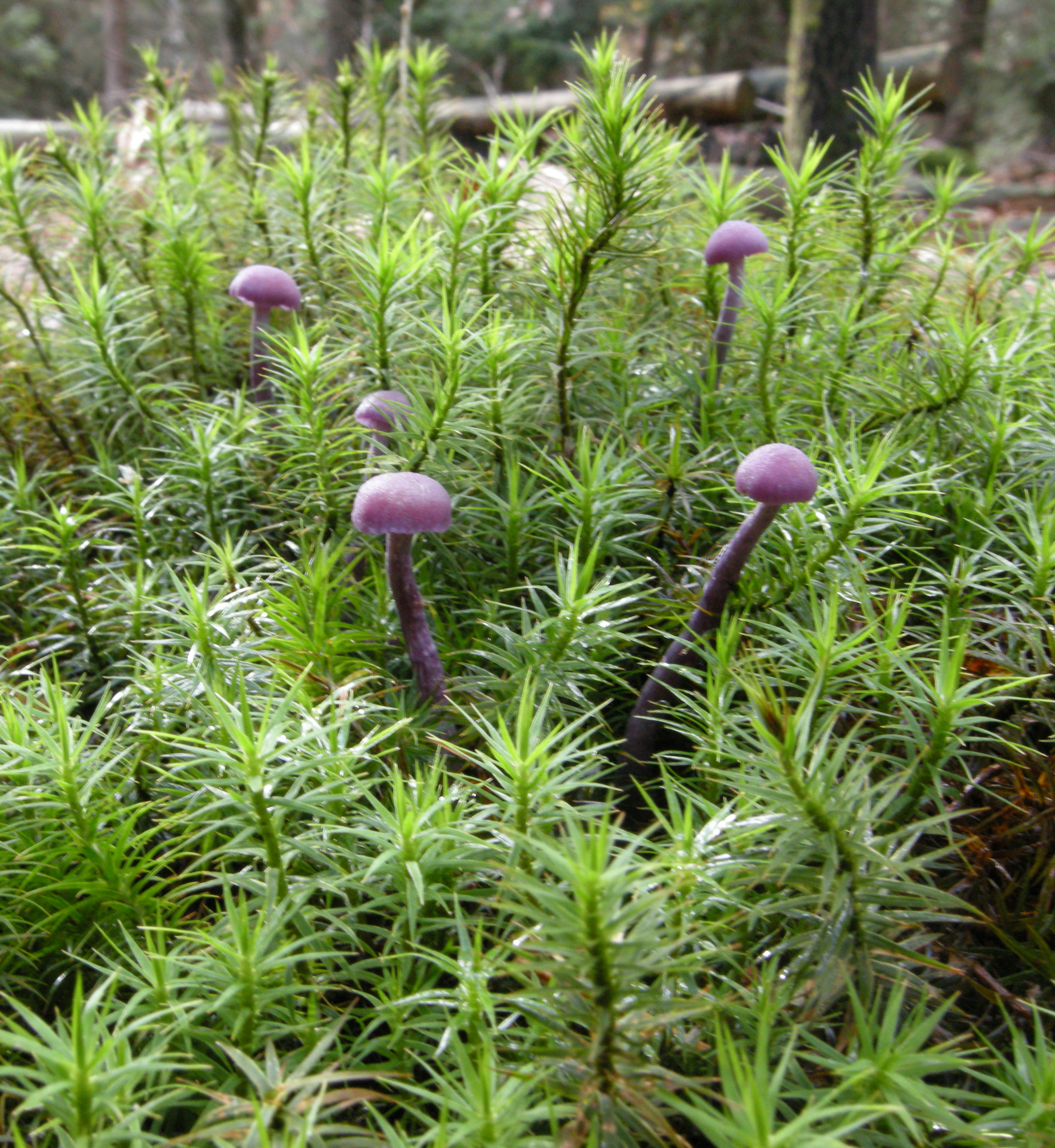 Laccaria amethystea (young)